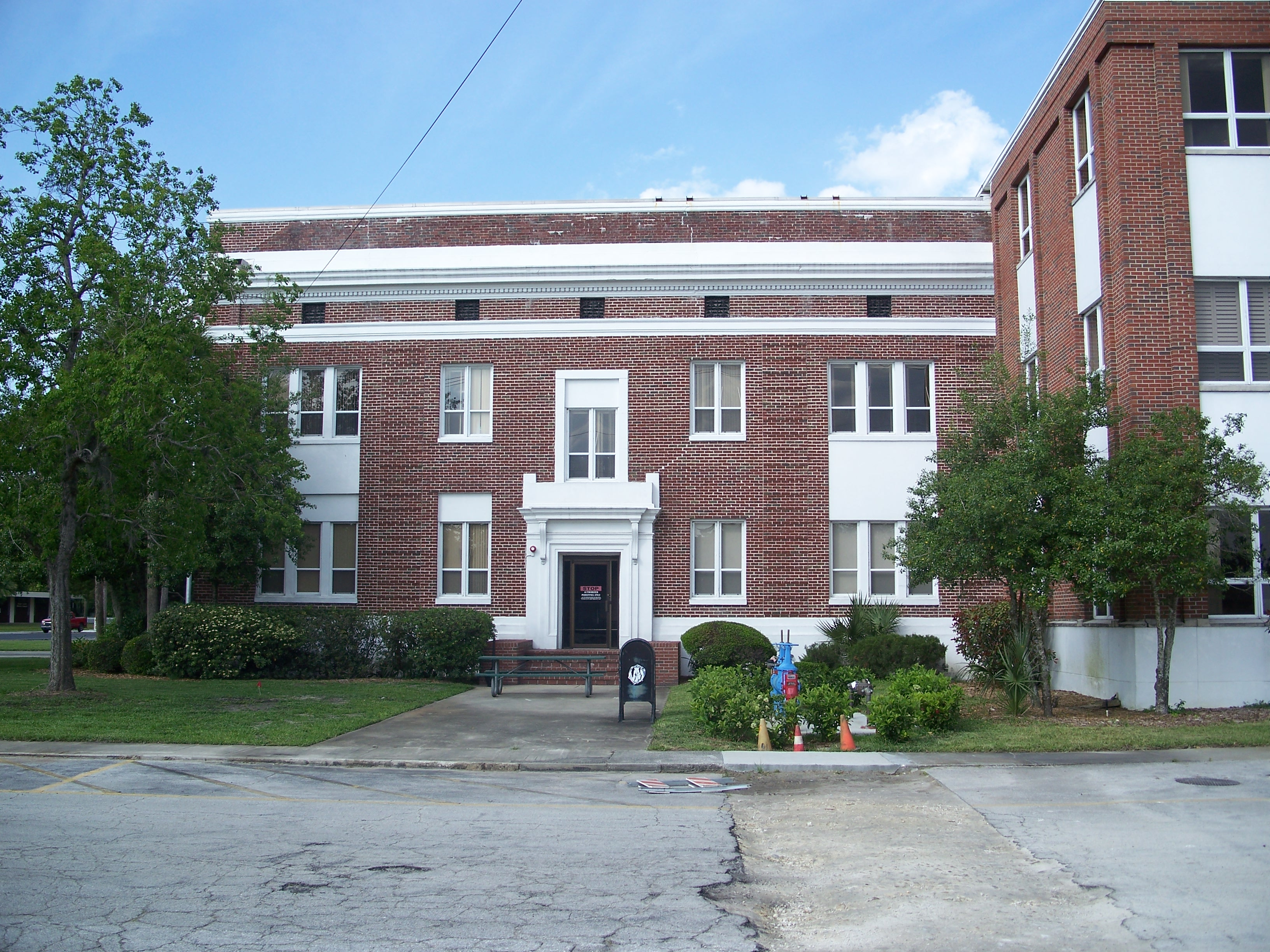 Flagler County Courthouse, in Bunnell, Florida